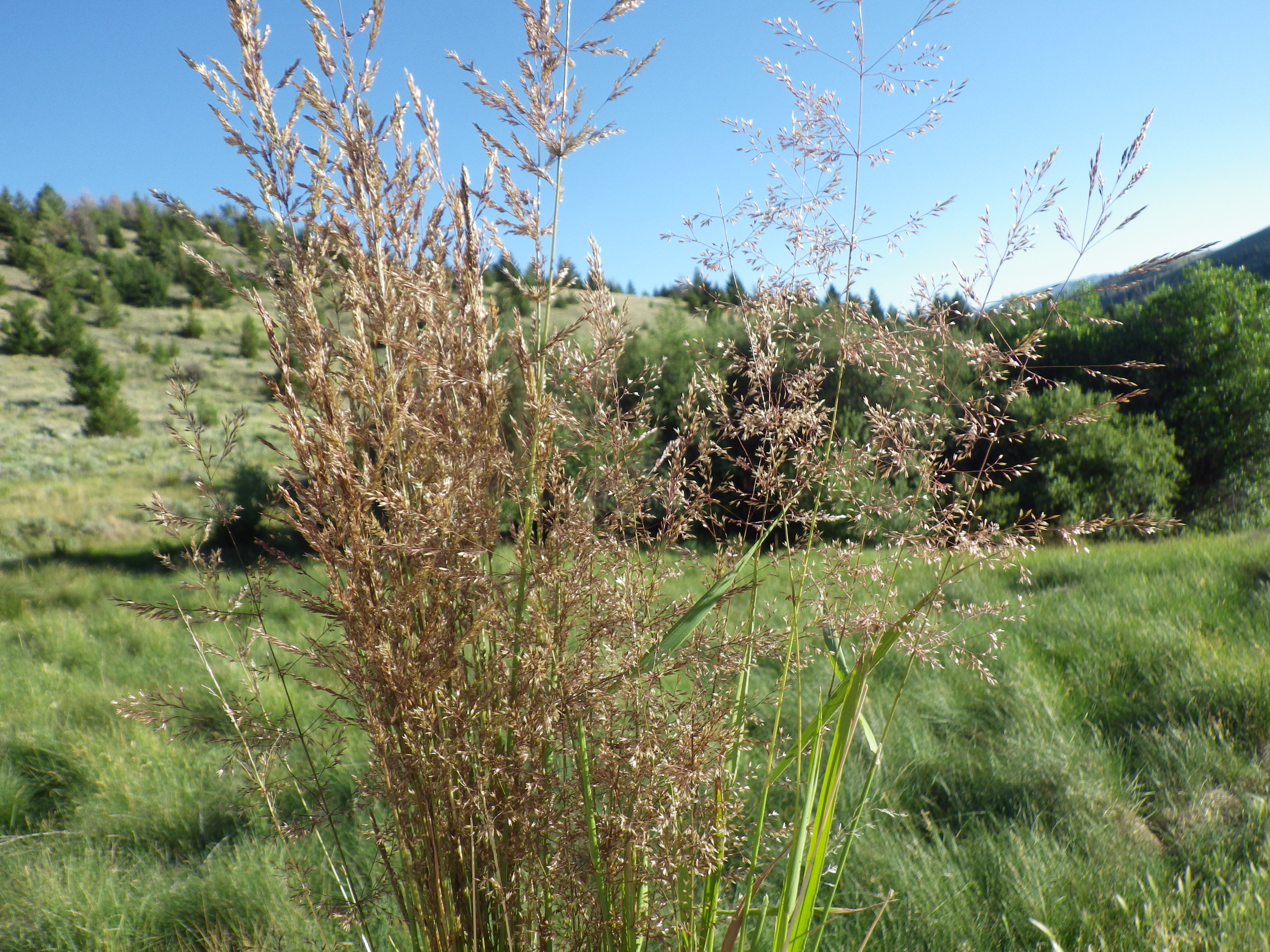 This introduced grass was growing with a bunched habit in an area that may have been vegetatively restored and there mainly at the bottom of shale barrens where perhaps water runoff was collected. The spikelets have well developed paleas and are borne generally along the length of the inflorescence branch. The ligules are about 4-5 mm long, generally longer than wide.